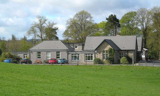 Lady Home Hospital, Douglas Originally Douglas Cottage Hospital, this building was commissioned in 1889 by the 12th Countess of Home. For more information